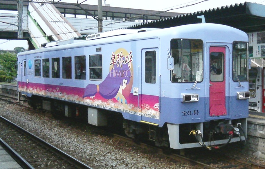 Amatetsu AR401 train Himiko at Kiyama Station